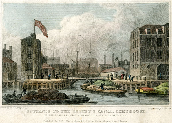 Regent's Canal Dock